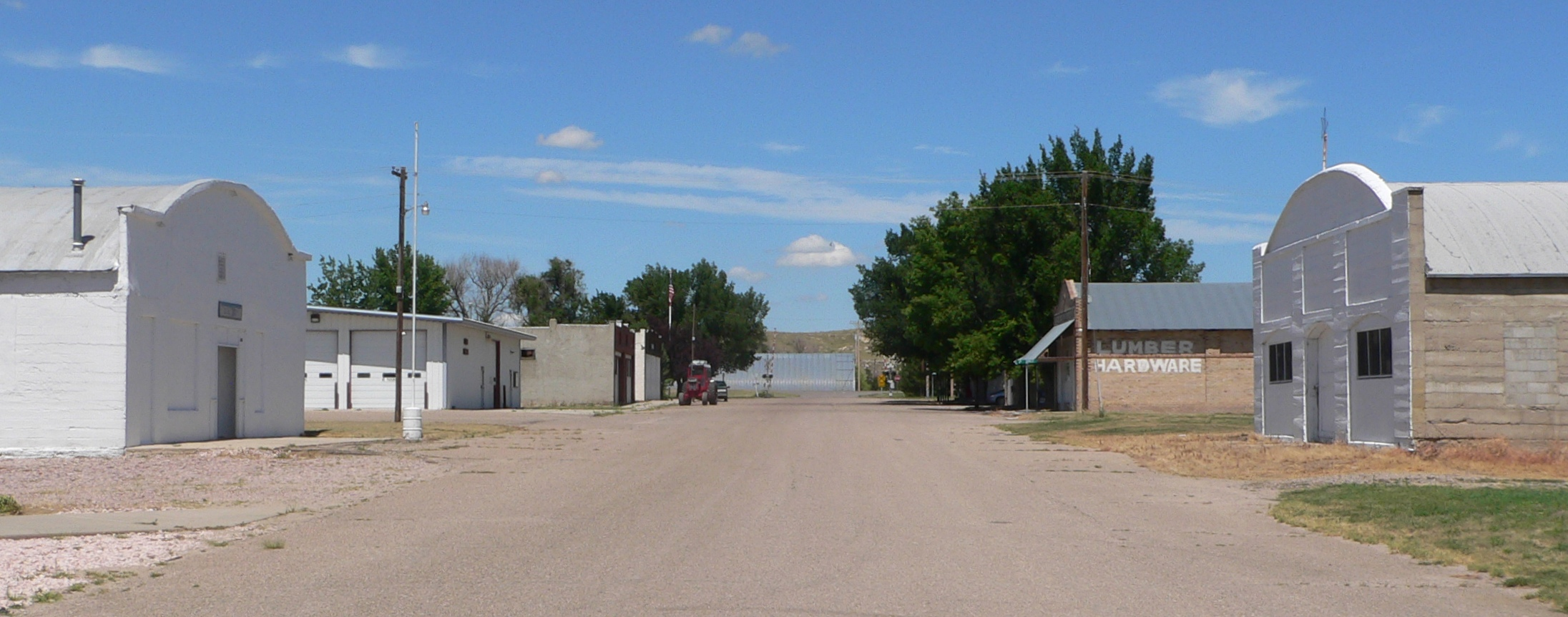 Downtown Lisco, Nebraska: Coldwater, looking north from about 3rd Street.